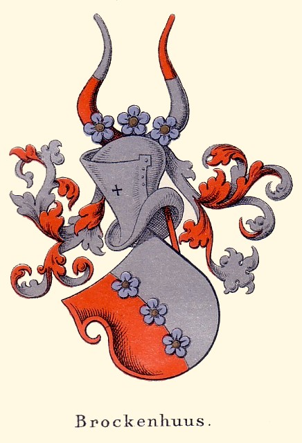 Coat of arms of the Brockenhuus family